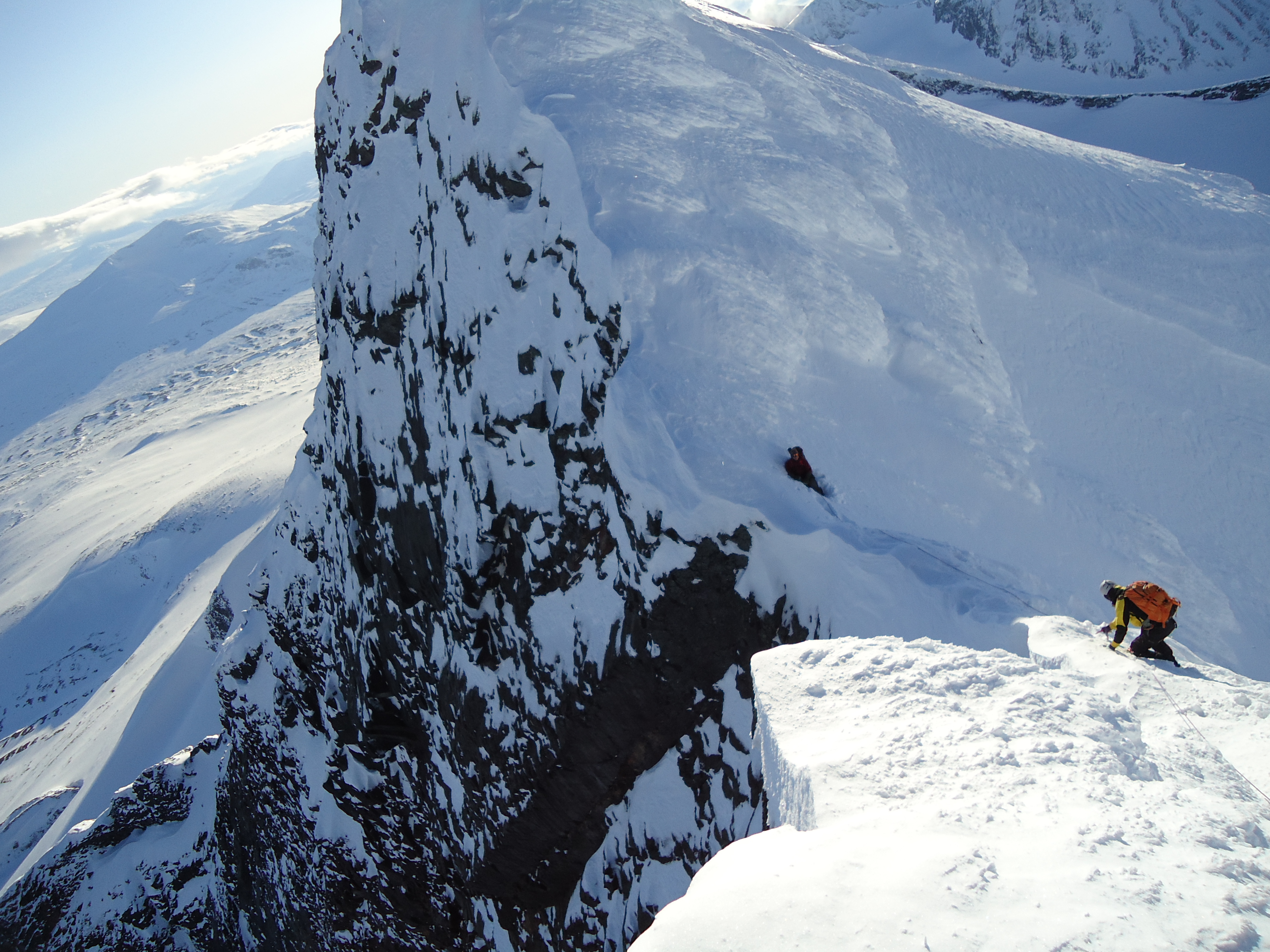 Expedition to the Akka-summit in April